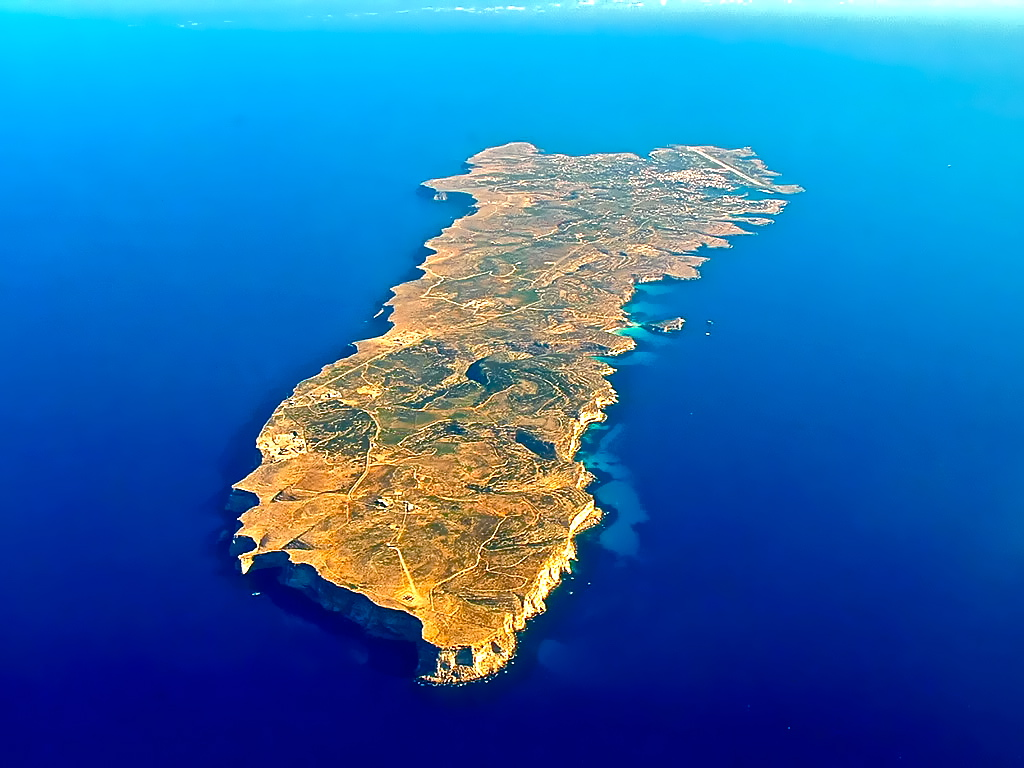 Lampedusa island, Italy, part of the Pelagie Islands located in the central part of the Mediterranean Sea between Europe and Africa.